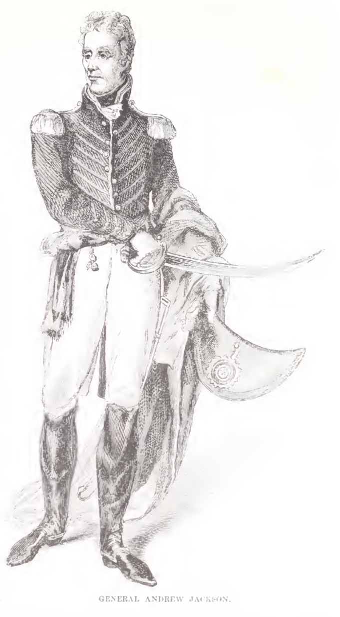 General Andrew Jackson from Harpers Vol 28, War with the Creek Indians, page 605, date of publication, 1864